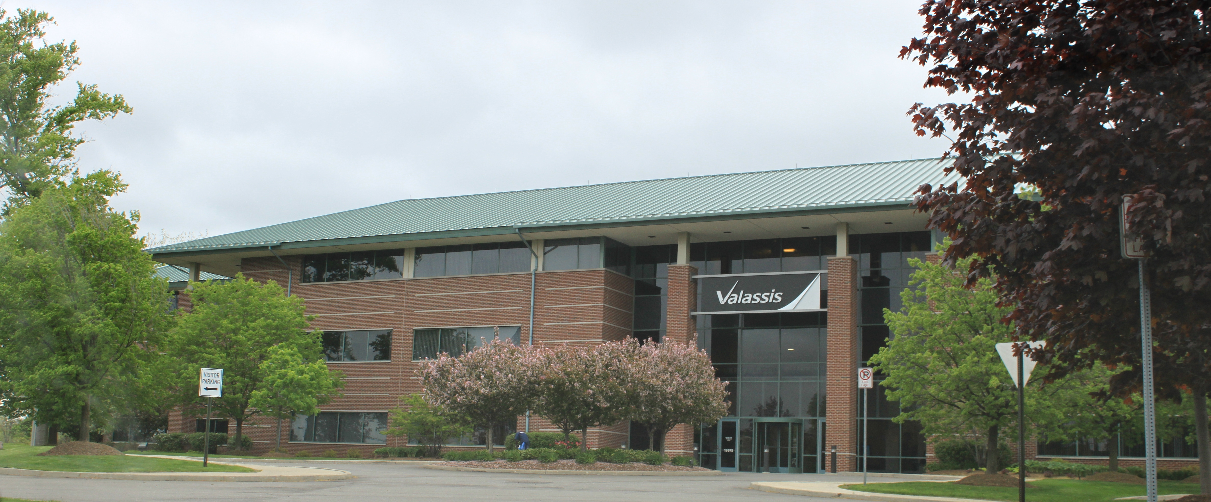 Valassis World Heaquarters, 19975 Victor Parkway, Livonia, Michigan